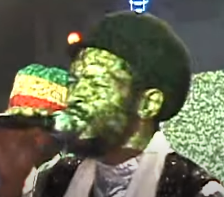 Judah Eskender Tafari in action at Black Redemption Sounds of Praises session at Roots Steppers Dubdance, Santos Party House NYC, on Apr 19 2009. Selecter: Ras Kush.